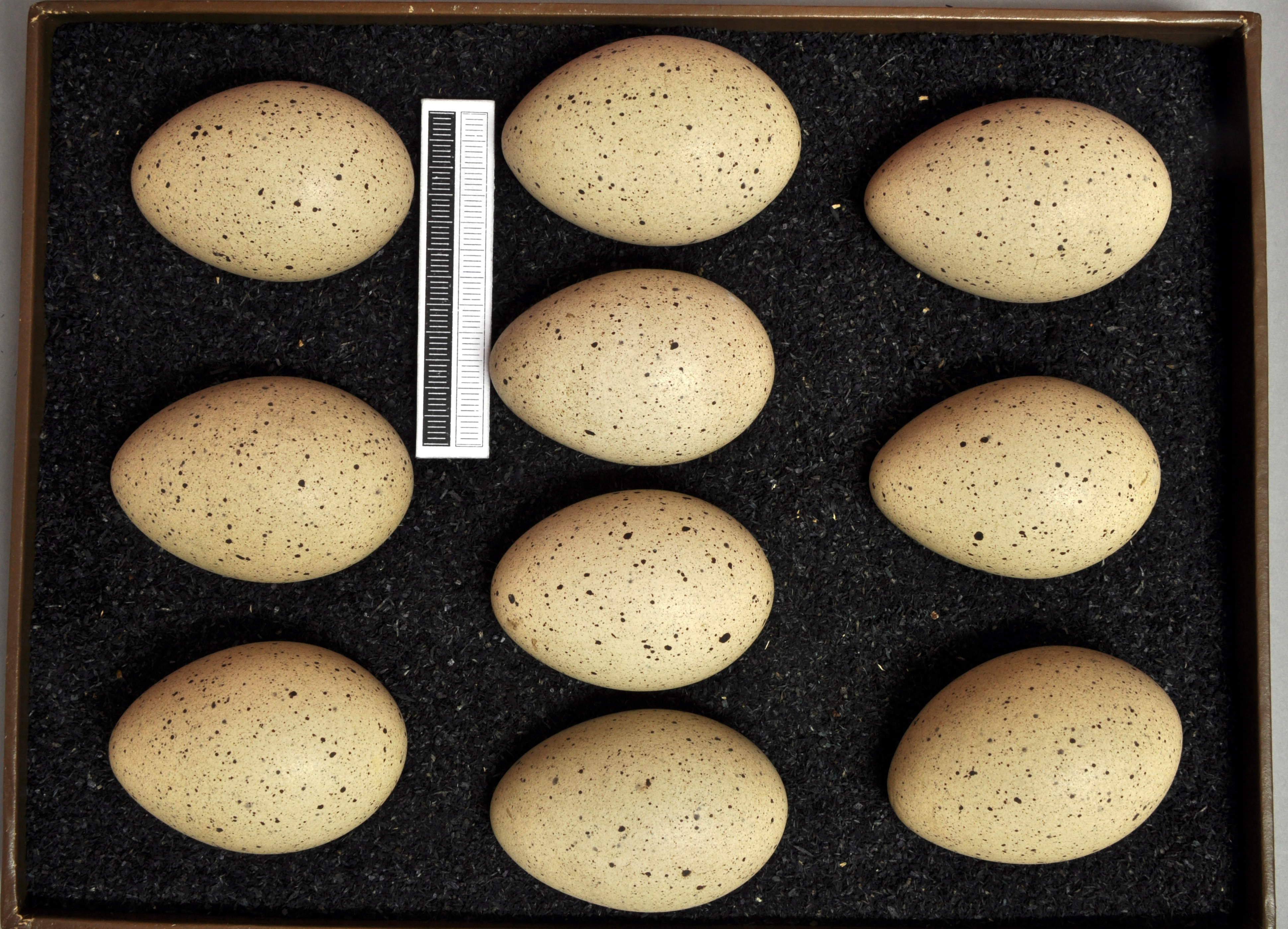 Eurasian coot Fulica atra , egg, Coll. Museum Wiesbaden